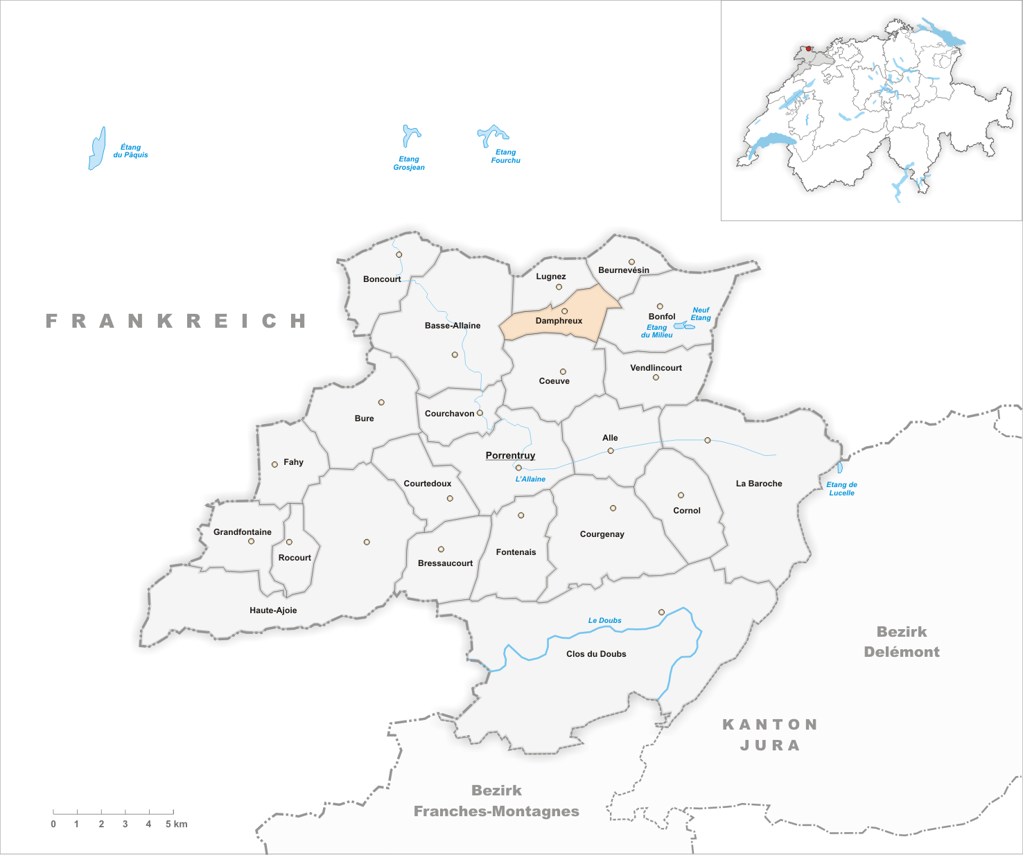 Municipality Damphreux